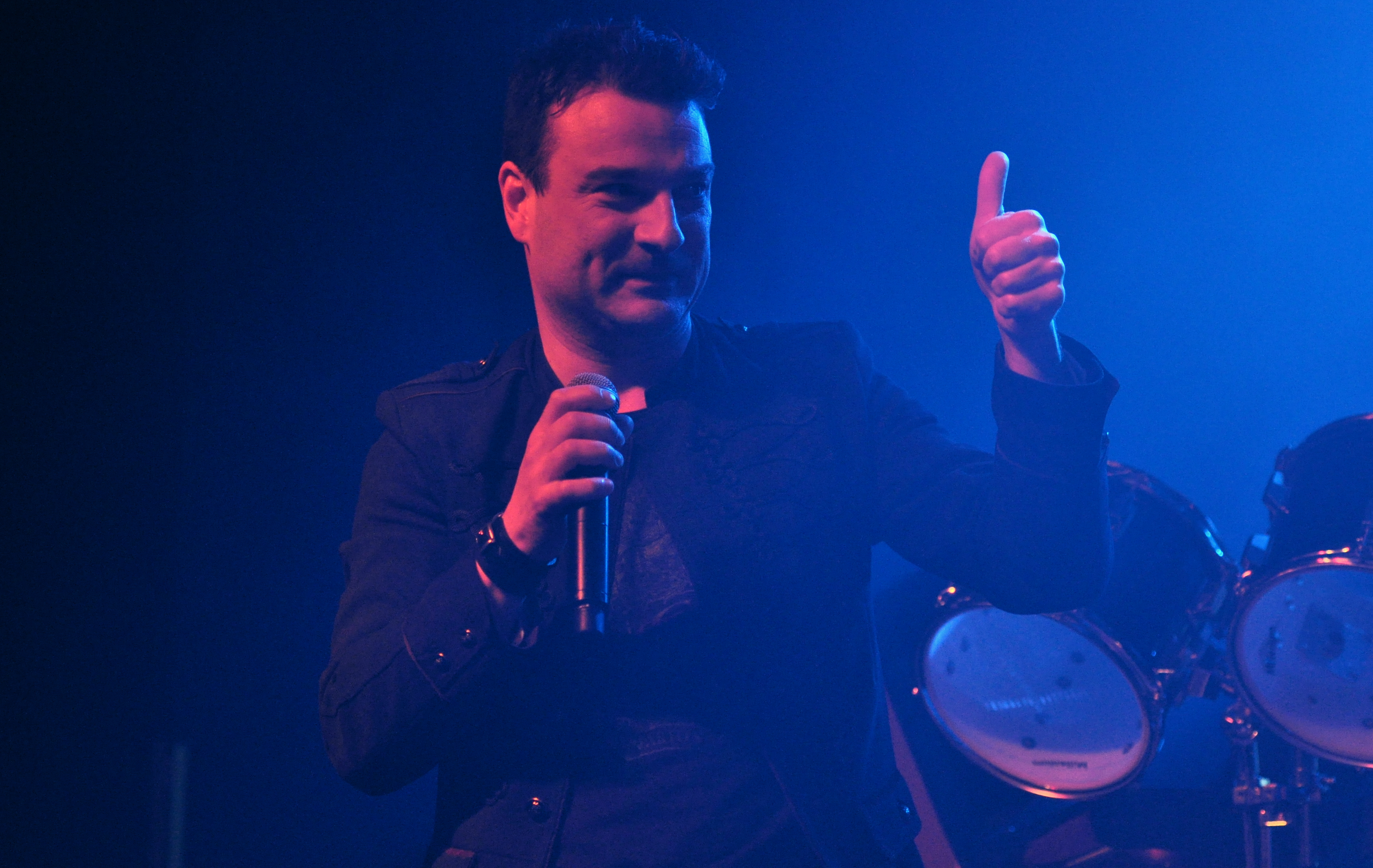 The German Band Melotron at e-tropolis 2013, Berlin